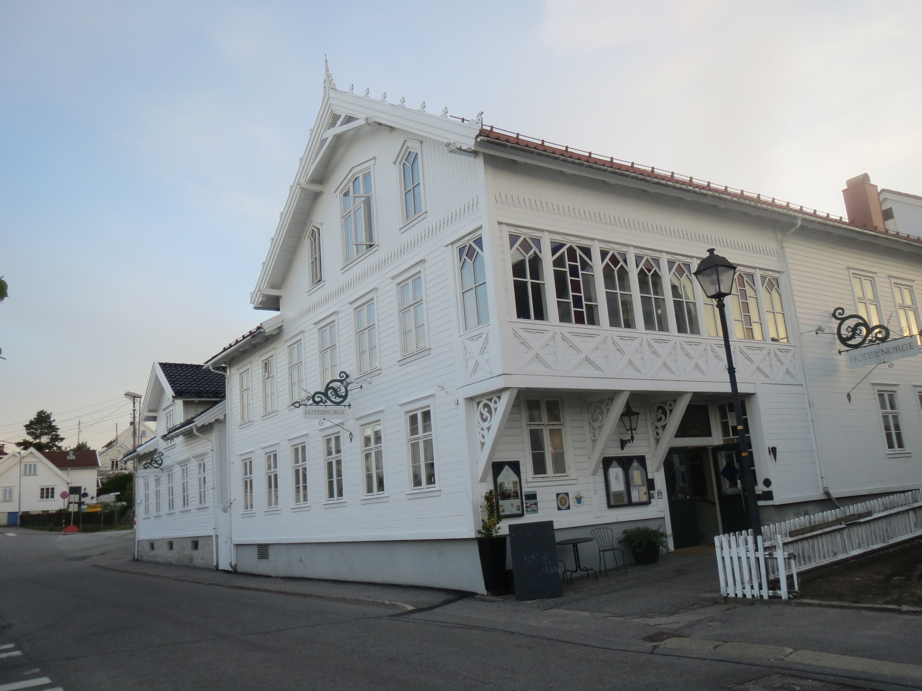 Lillesand Hotel Norge, Lillesand, Norway